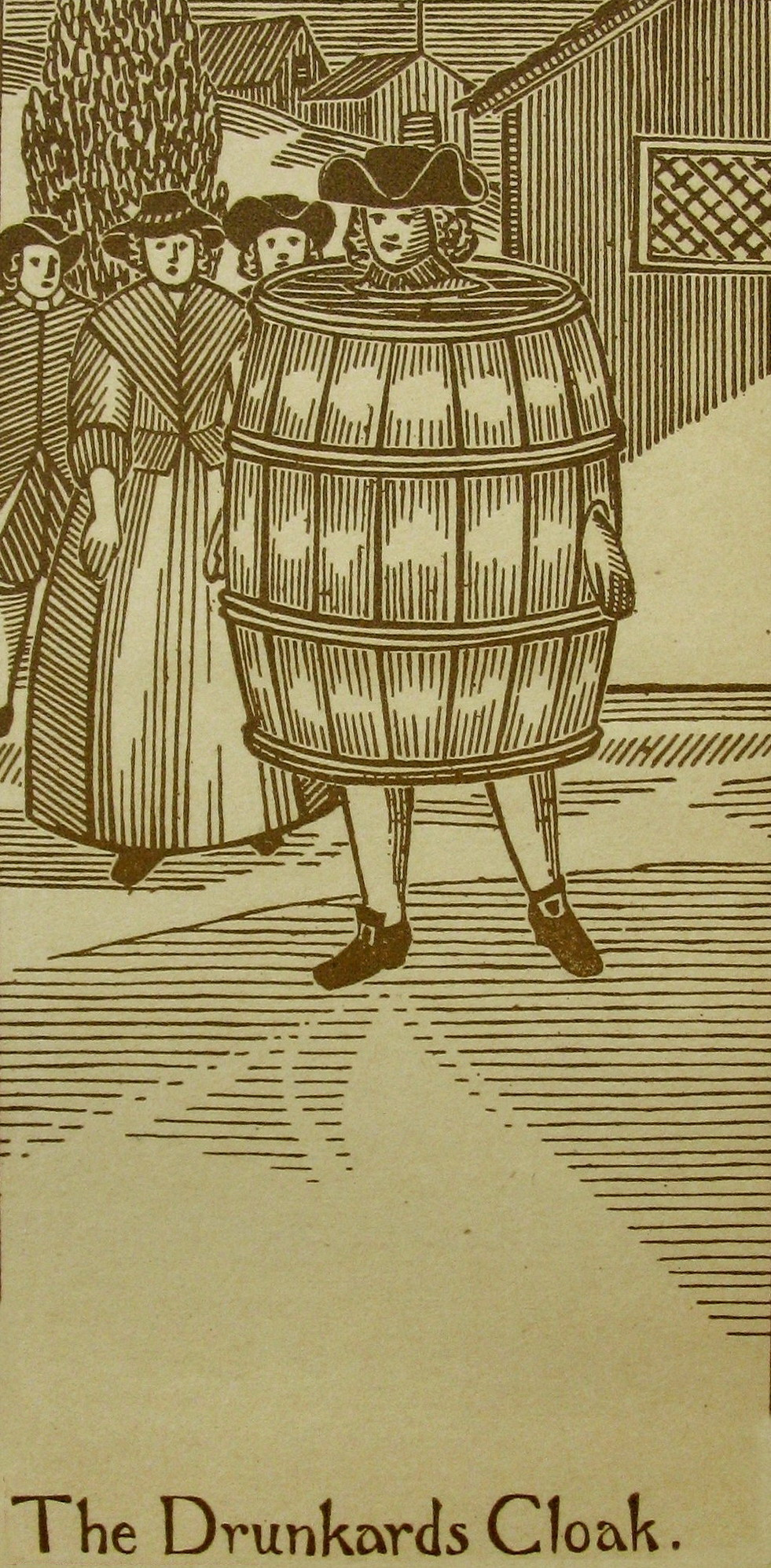 Frontispiece: Curious Punishments of Bygone Days by Alice Morse Earle Chicago, Herbert S. Stone & Co., 1896.Printed at the Chap-book offices in the Caxton Building.